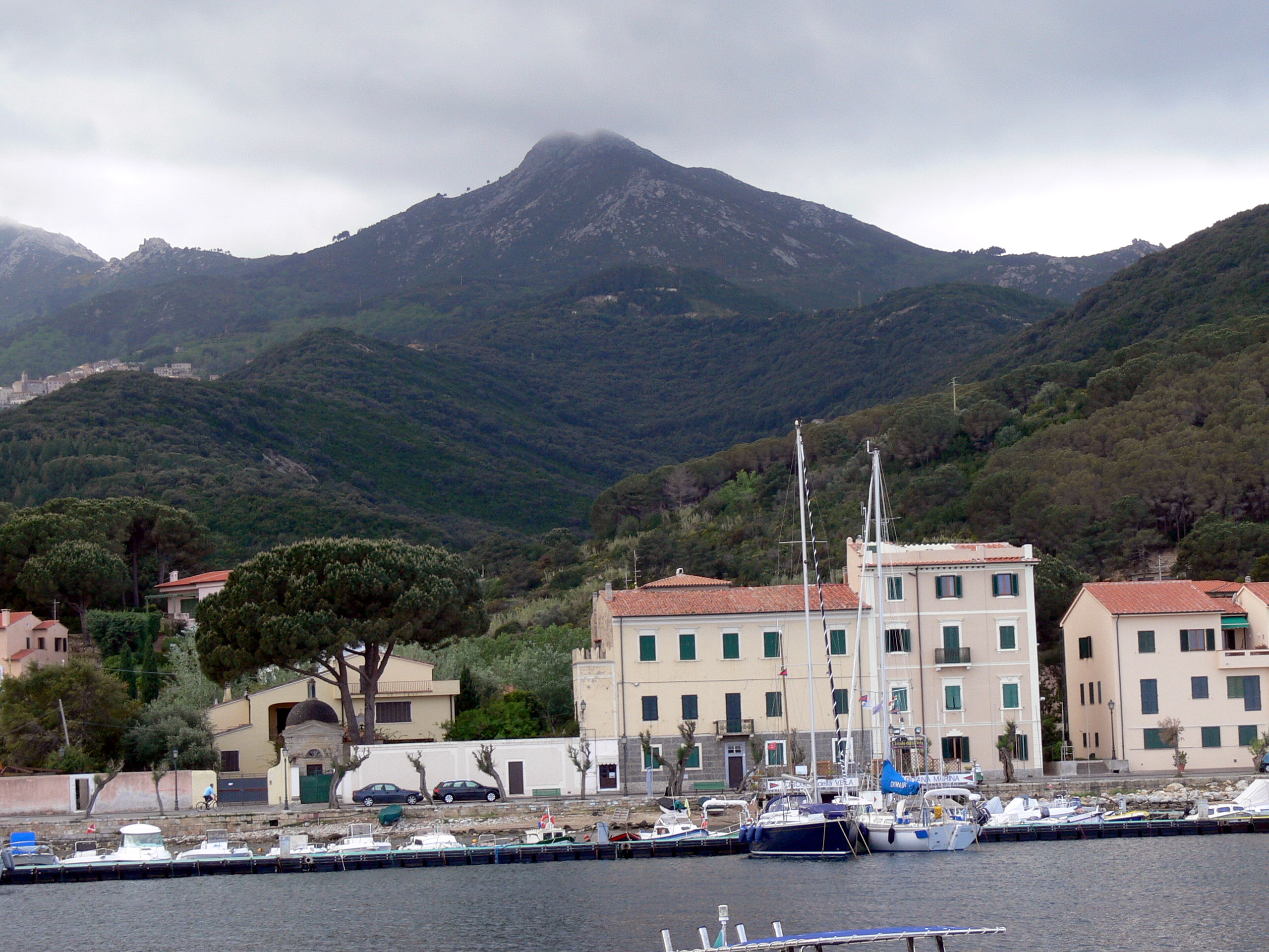 Marciana Marina ( Elba ). Harbour with Monte Capanne in clouds.